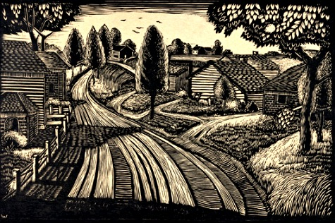 WPA art commissioned by U.S. government, Farmlands, woodcut blockprint